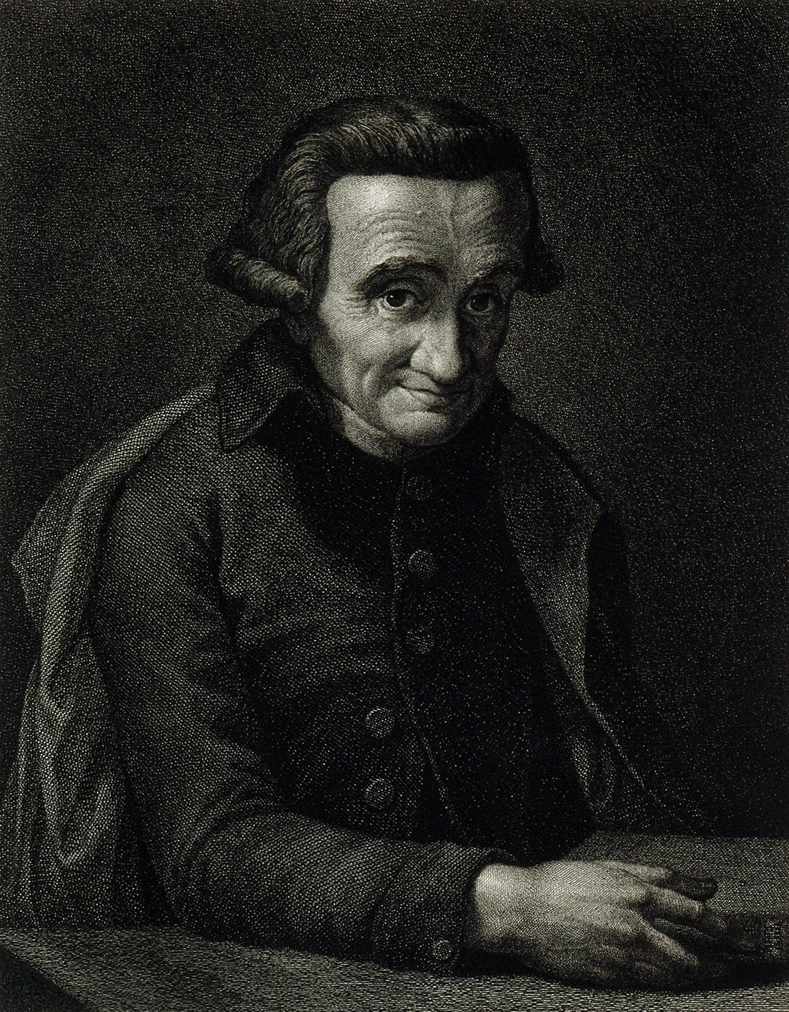 Juan Ignacio Molina. Line engraving by F. Rosaspina, 1805, after G. B. Frulli. Iconographic Collections Keywords: portrait prints; engravings; Juan Ignacio Molina